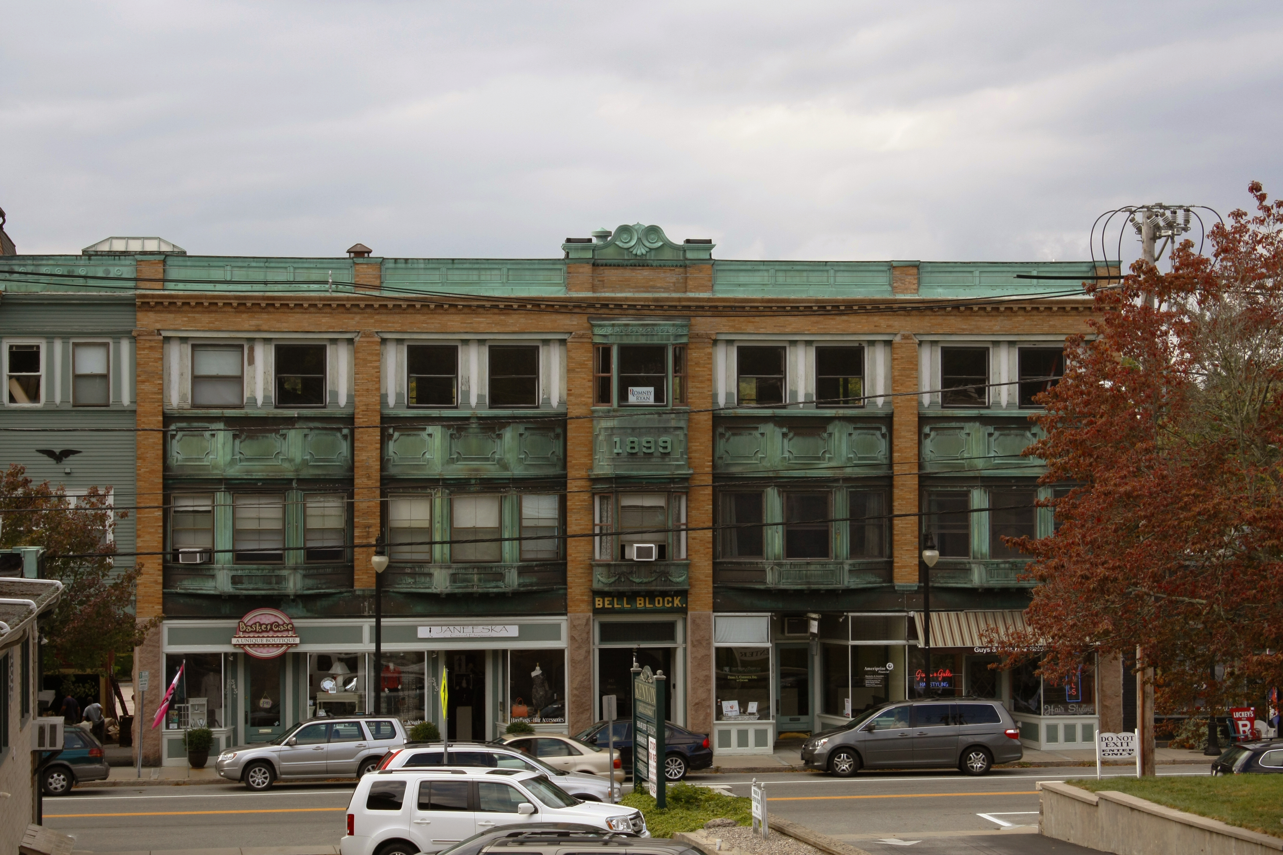 Wakefield Historic District